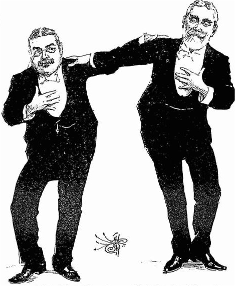 Caricature of Arthur Sullivan and F. C. Burnand at the time of the premiere of their opera The Chieftain, Public domain.